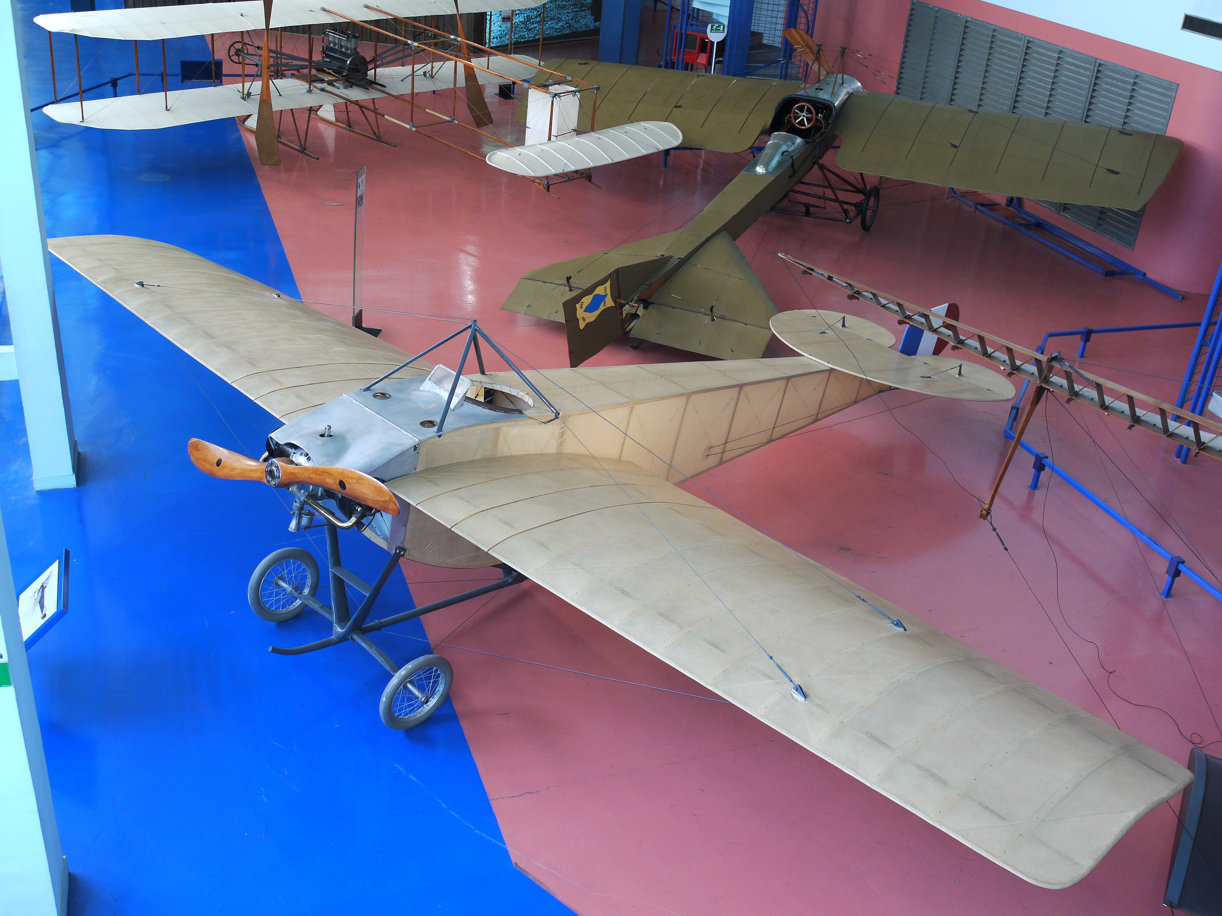 Nieuport 2N aircraft, Museum of Air and Space Paris, Le Bourget (France)